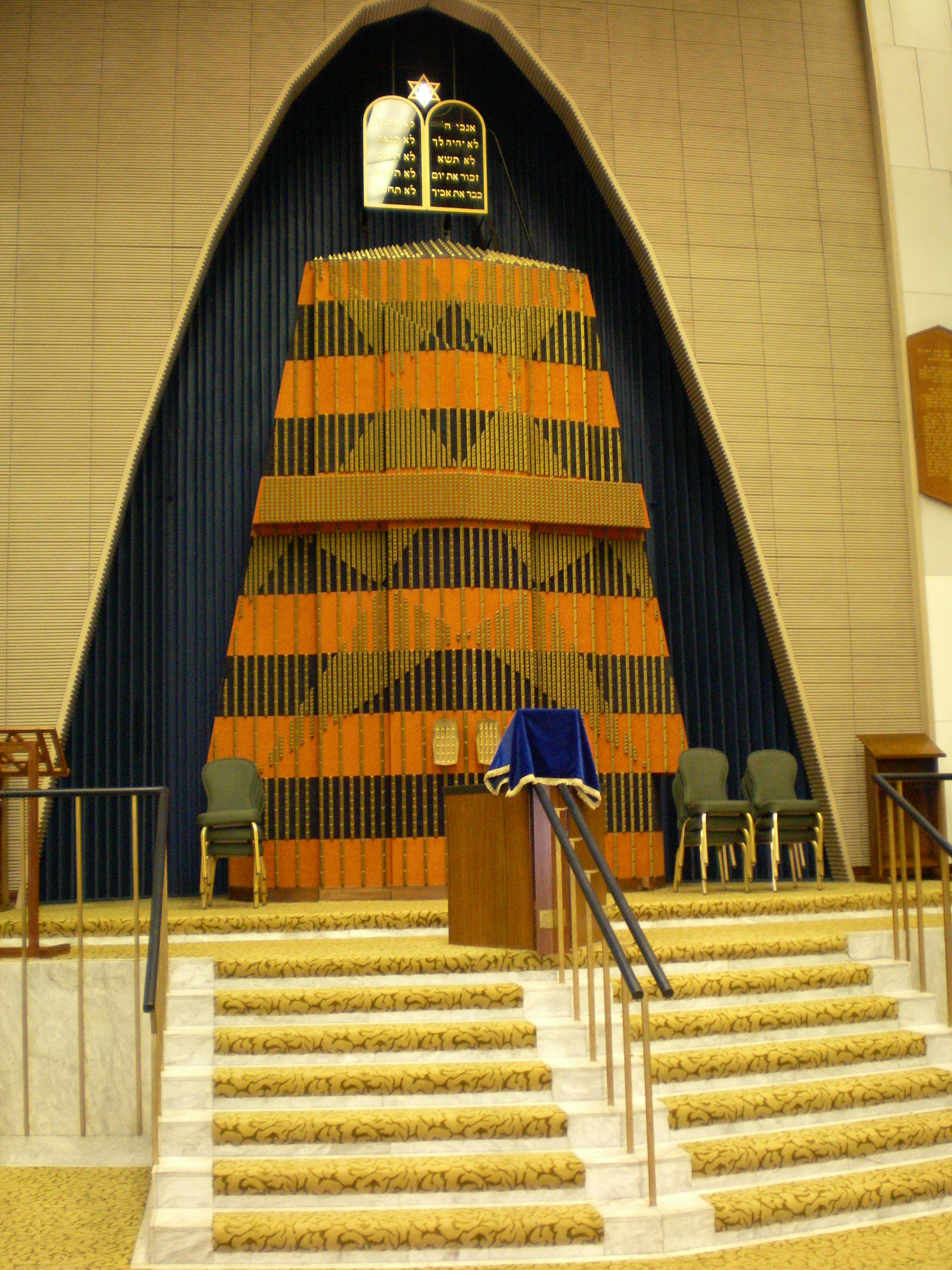 Interior of St Johns Wood Synagogue